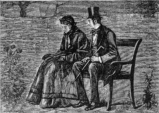 "We sat down on a bench that was near" by F. A. Fraser. c. 1877. 4.8 x 6.7 inches. An illustration for the Household Edition of Dickens's Great Expectations (p. 224). Scanned image and text by Philip V. Allingham from material reproduced courtesy of The Charles Dickens Museum, 48 Doughty Street, London WC1N 2LF.